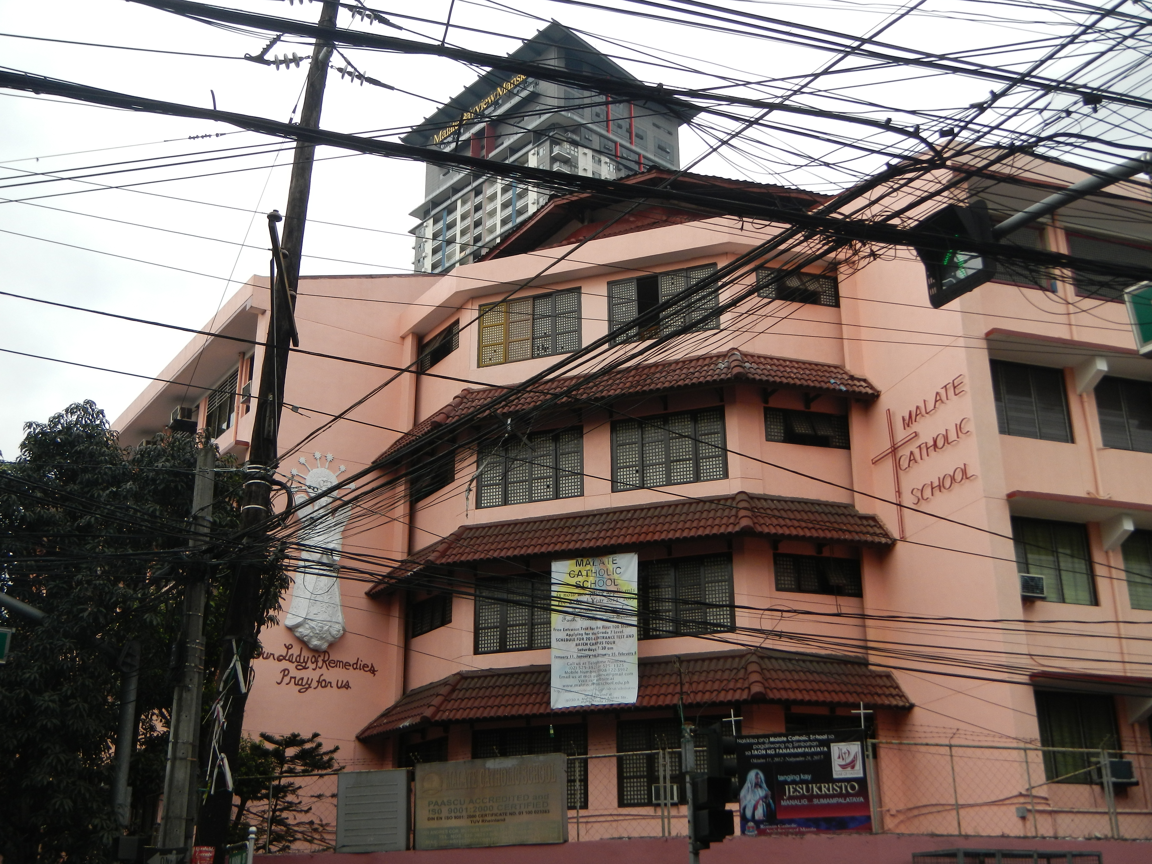 Upload Wizard of - a) Derham Park, Pasay City December 1 2003, 140th Founding Anniversary of Pasay City, Pasay Sports Complex, b) Asian Institute of Maritime Studies [1] (AIMS) is a merchant marine college in Pasay City, Philippines College of Business, c) Apolinario Mabini Statue, Barangay 721 Zone 78 District V Manila d) Malate Catholic School[2], Las Palmas Hotel e) Ang Aklatang Pambansa National Library of the Philippines[3] Rizal Park, T.M. Kalaw Avenue, Ermita, Manila.